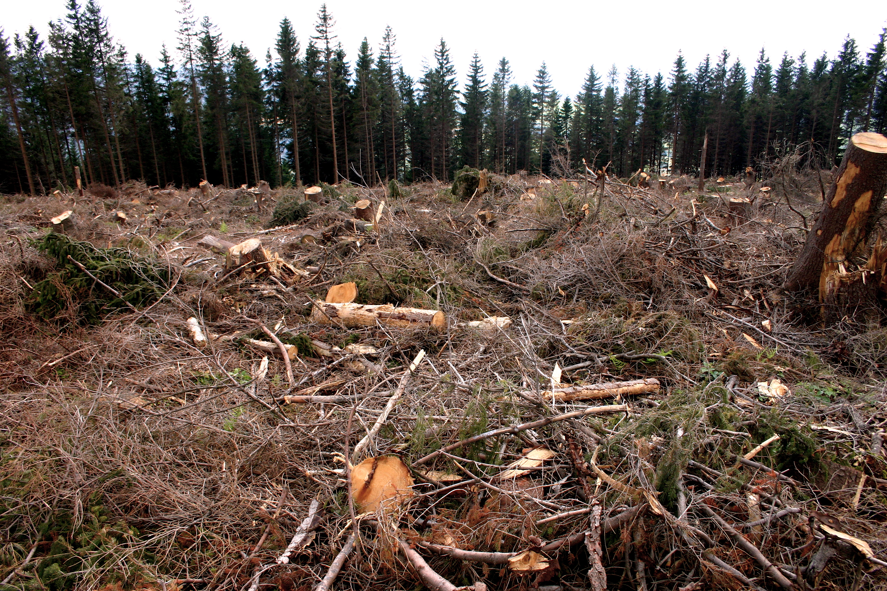 A forest near Bruchhausen (German), 6 months after hurricane Kyrill